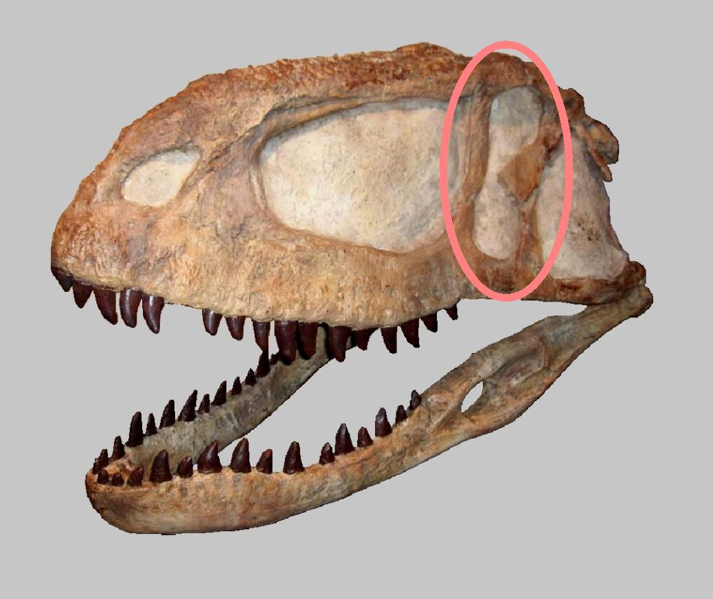 Skull of Abelisaurus comahuensis with eye socket circled